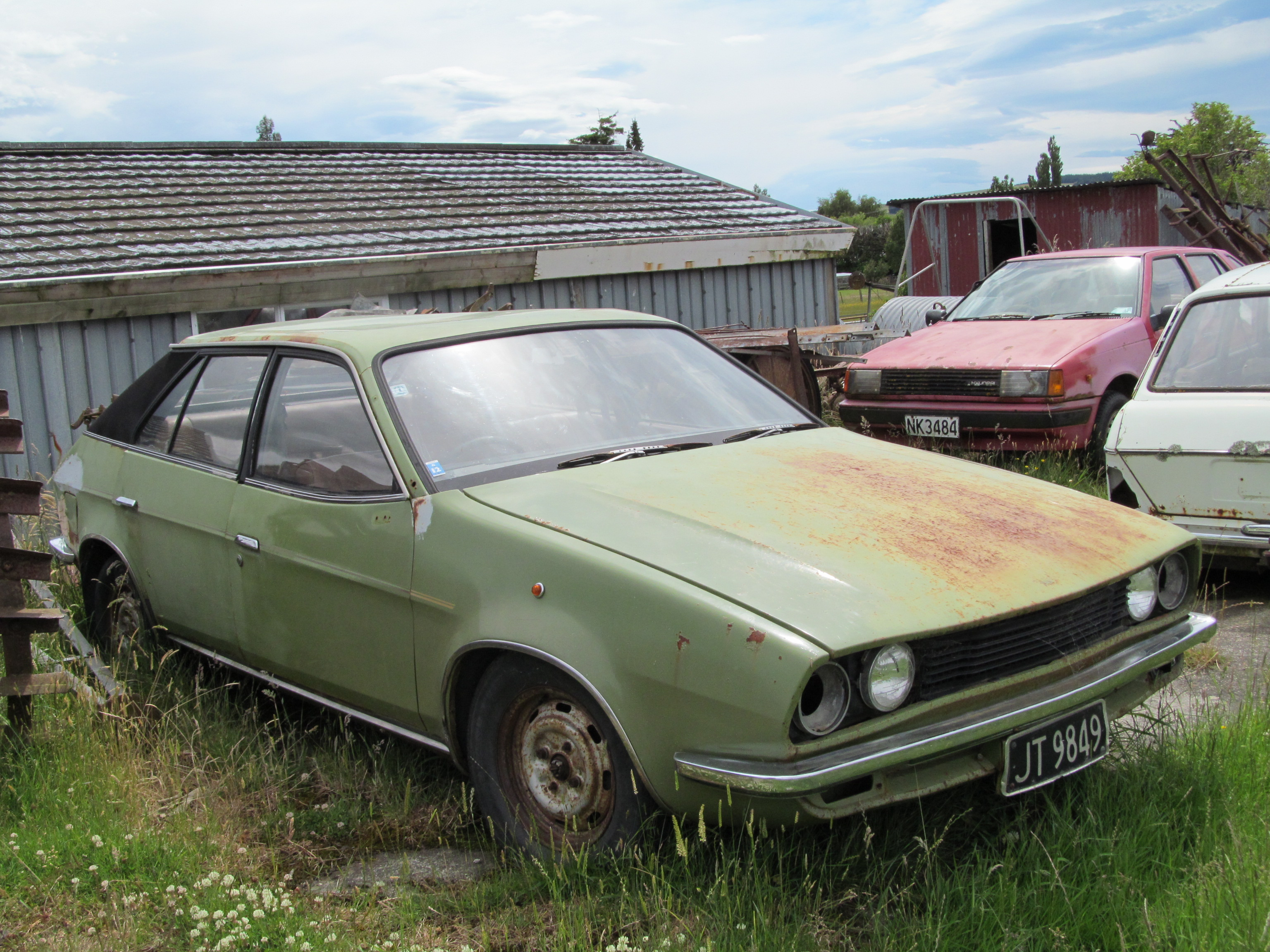 JT9849 No details for this one unfortunately, but I've made an educated guess on the year. As you can see this didn't look too bad - at least compared to another Austin on the same property... The Maxi and Excel are coming soon!